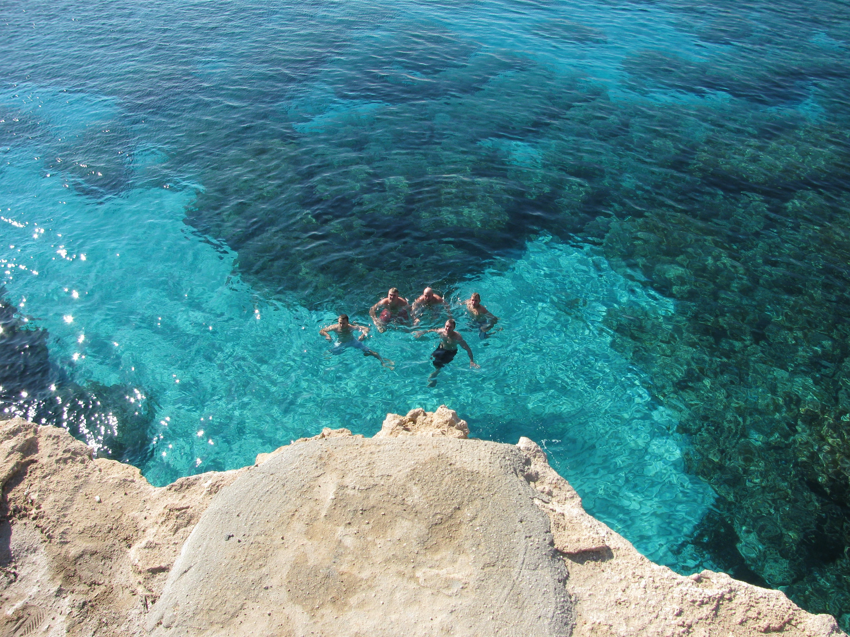 Cape Greco National Park - People swimming near Cape Greco sea caves - Cyprus.